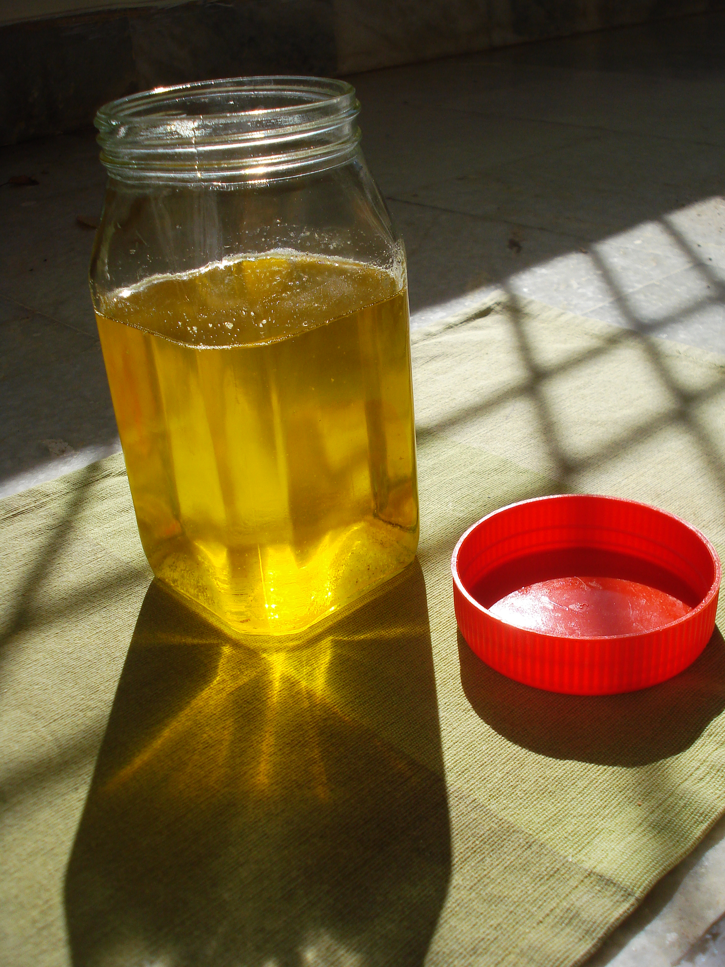 Just-made homemade ghee. Used in variety of Indian foods in different ways. Made from cow's milk by perpetually heating white butter (also homemade) made from cow's milk.